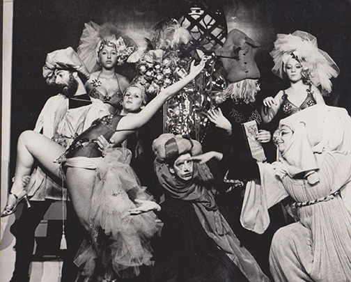 "Mas que Papel, Seu Bacharel!", primeira peça autoral do GD, escrita por José Luiz Ribeiro e encenada em 1979.